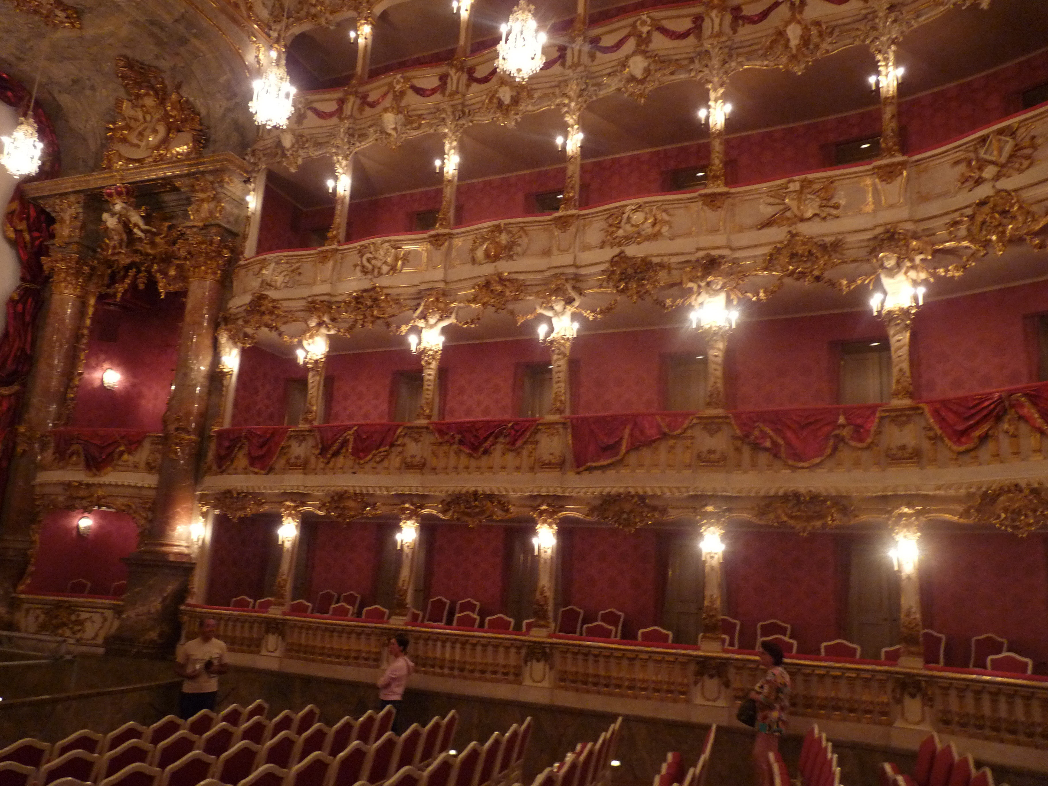 Inside of the Cuvilliés-theatre in Munich, Bavaria, Germany